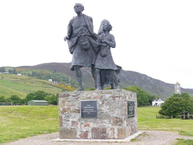 "The emigrants" A fine lifesize bronze, commemorating the many highlanders who emigrated following the "clearances"